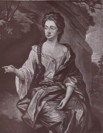 Portrait of Princess Henriëtte Amalia of Anhalt-Dessau (1666-1726), Princess consort of Nassau-Dietz